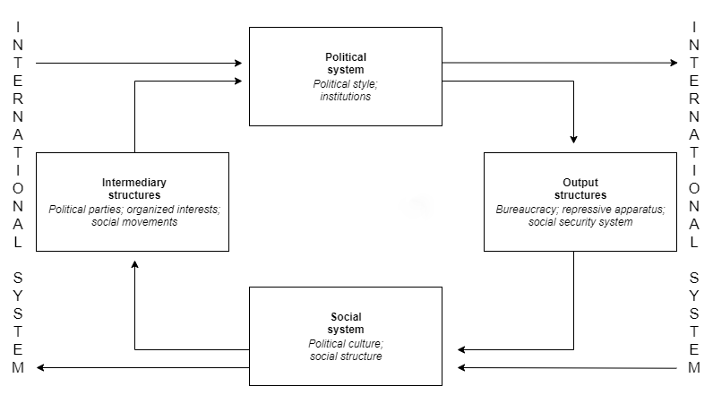 A schema of systems which describes the structure of politics.